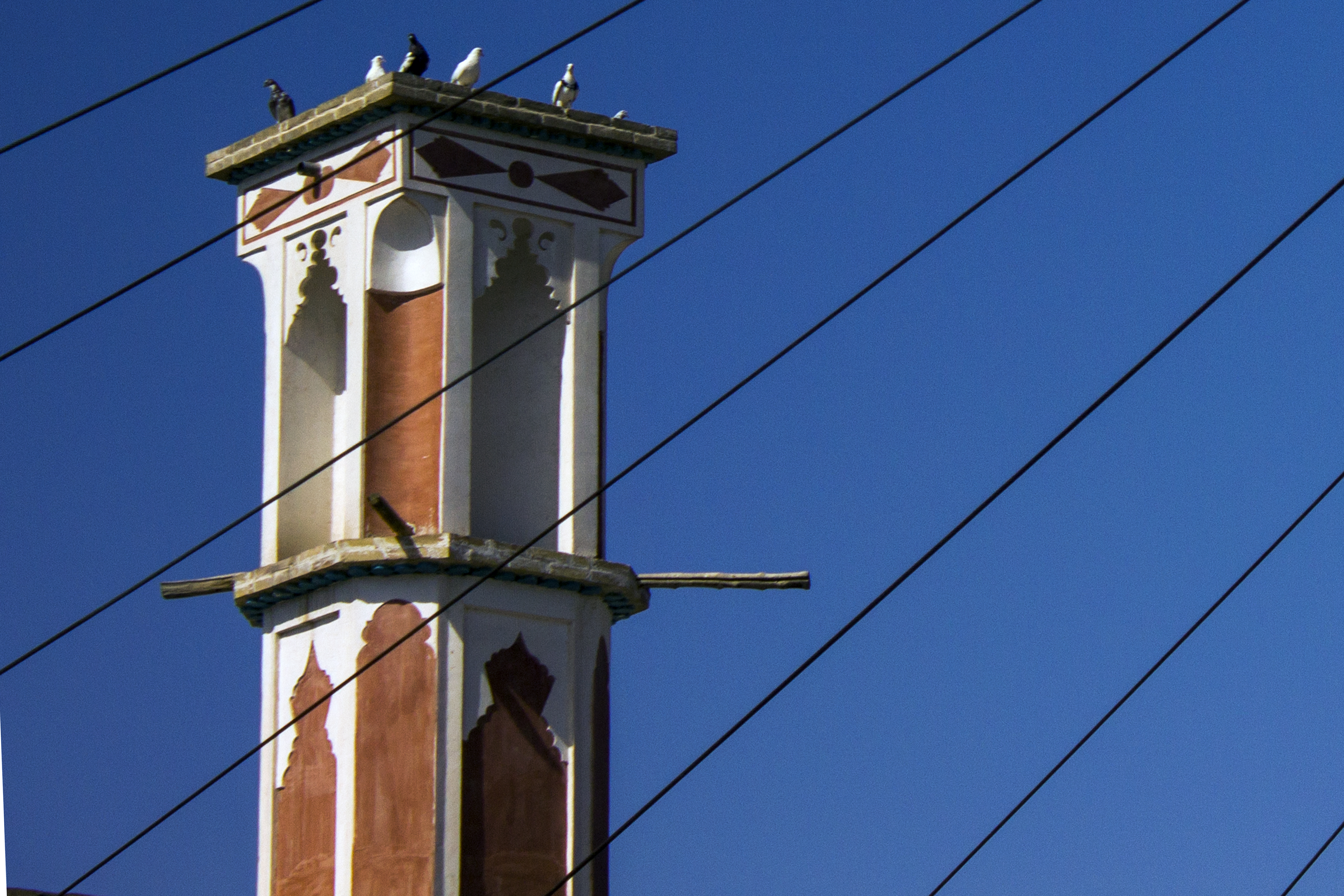 A windtower is a traditional Persian architectural element to create natural ventilation in buildings.